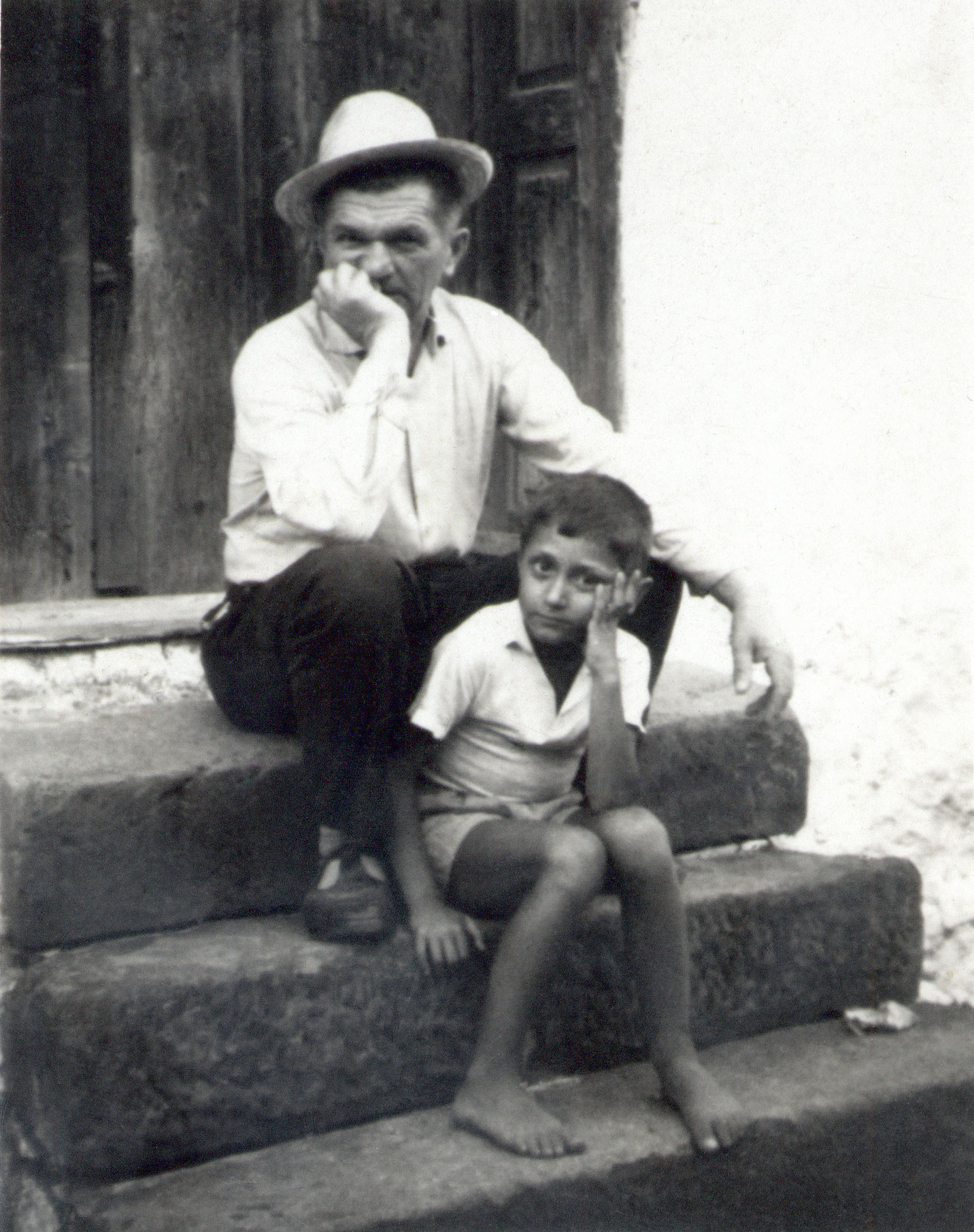 Sasha with his grandfather, 1961